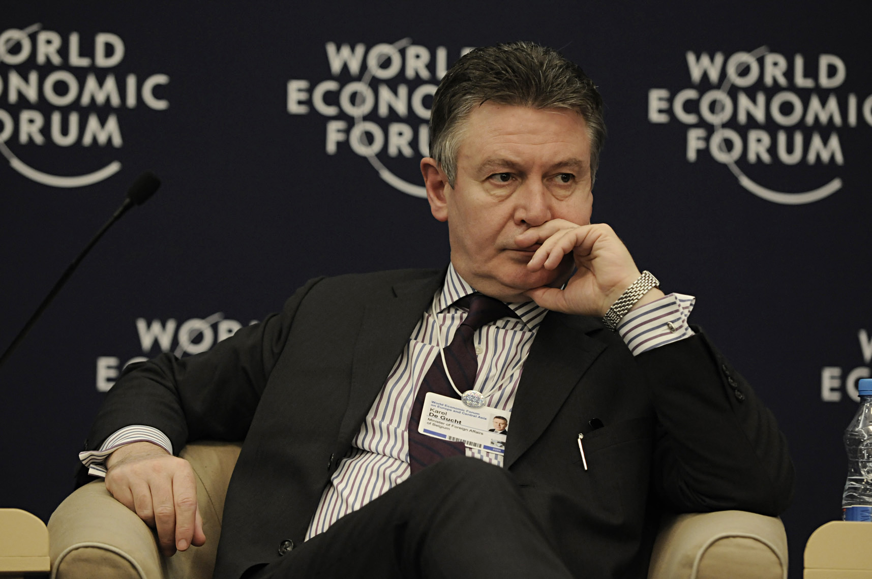 ISTANBUL/TURKEY, 31OCT08 - Karel De Gucht, Minister of Foreign Affairs of Belgium at the World Economic Forum on Europe and Central Asia in Istanbul, 30 October - 1 November 2008. Copyright World Economic Forum ( by Serkan Eldeleklioglu-Bora Omerogullari-Ozan Atasoy